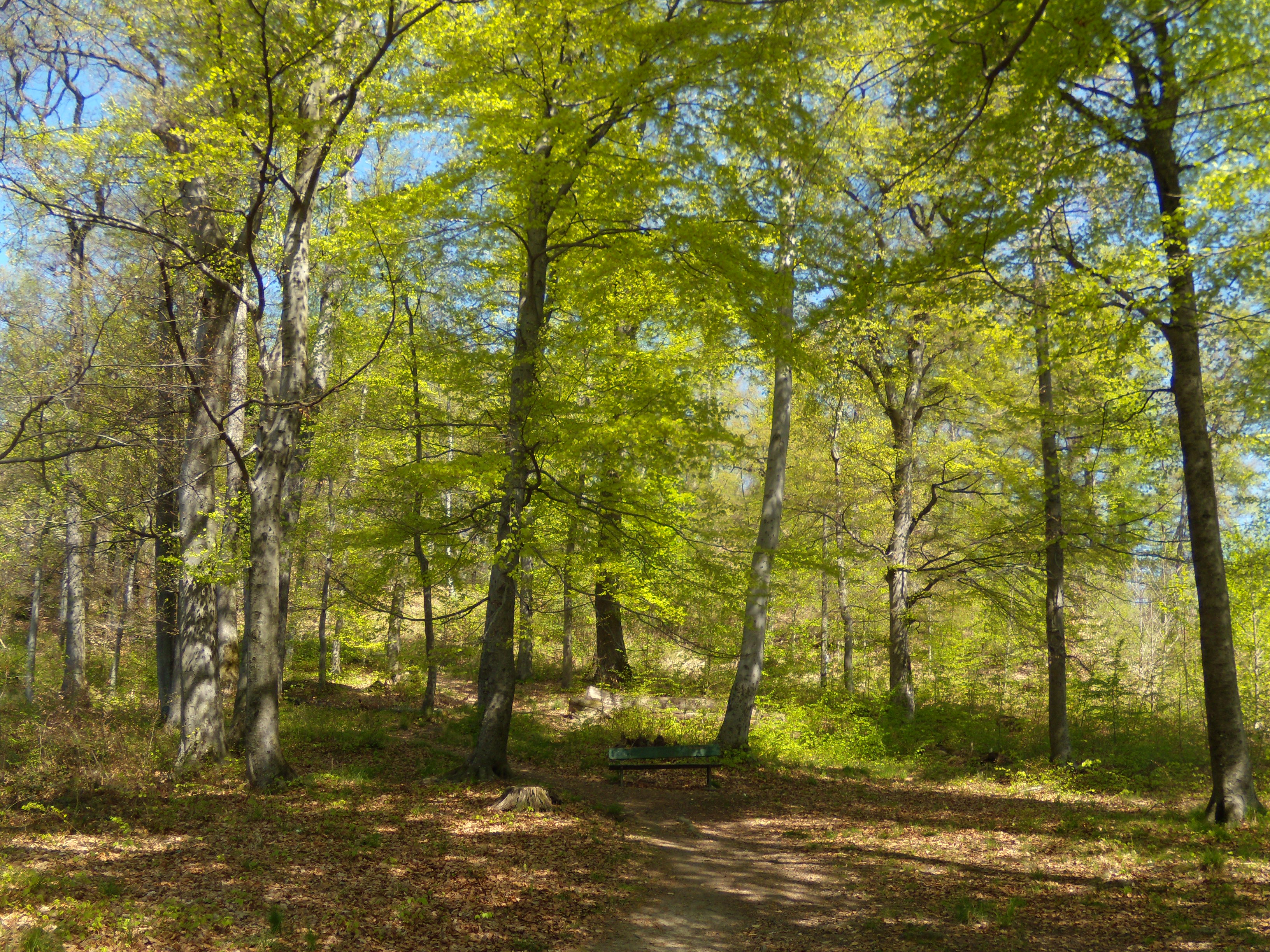 Sauvabelin Forest, Lausanne, Switzerland